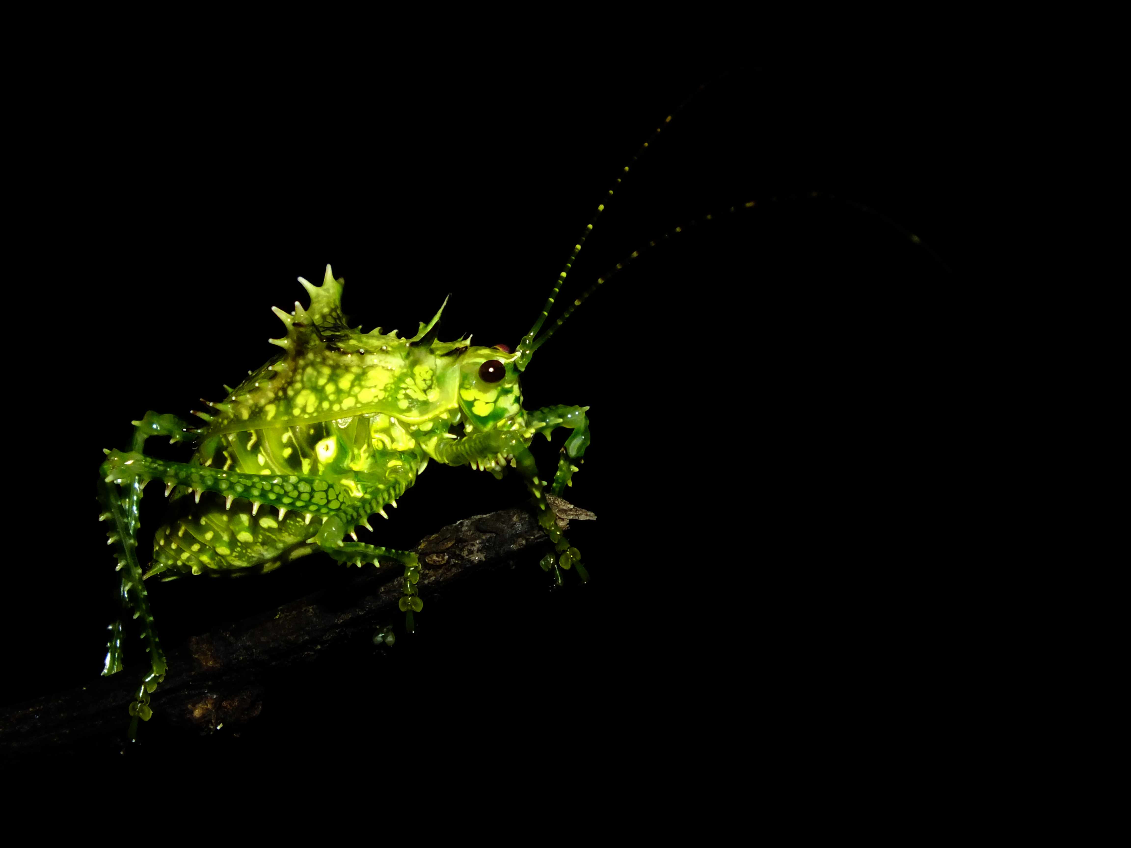 Unknown species Grasshopper from Cyclops Mountain, Jayapura, Papua.